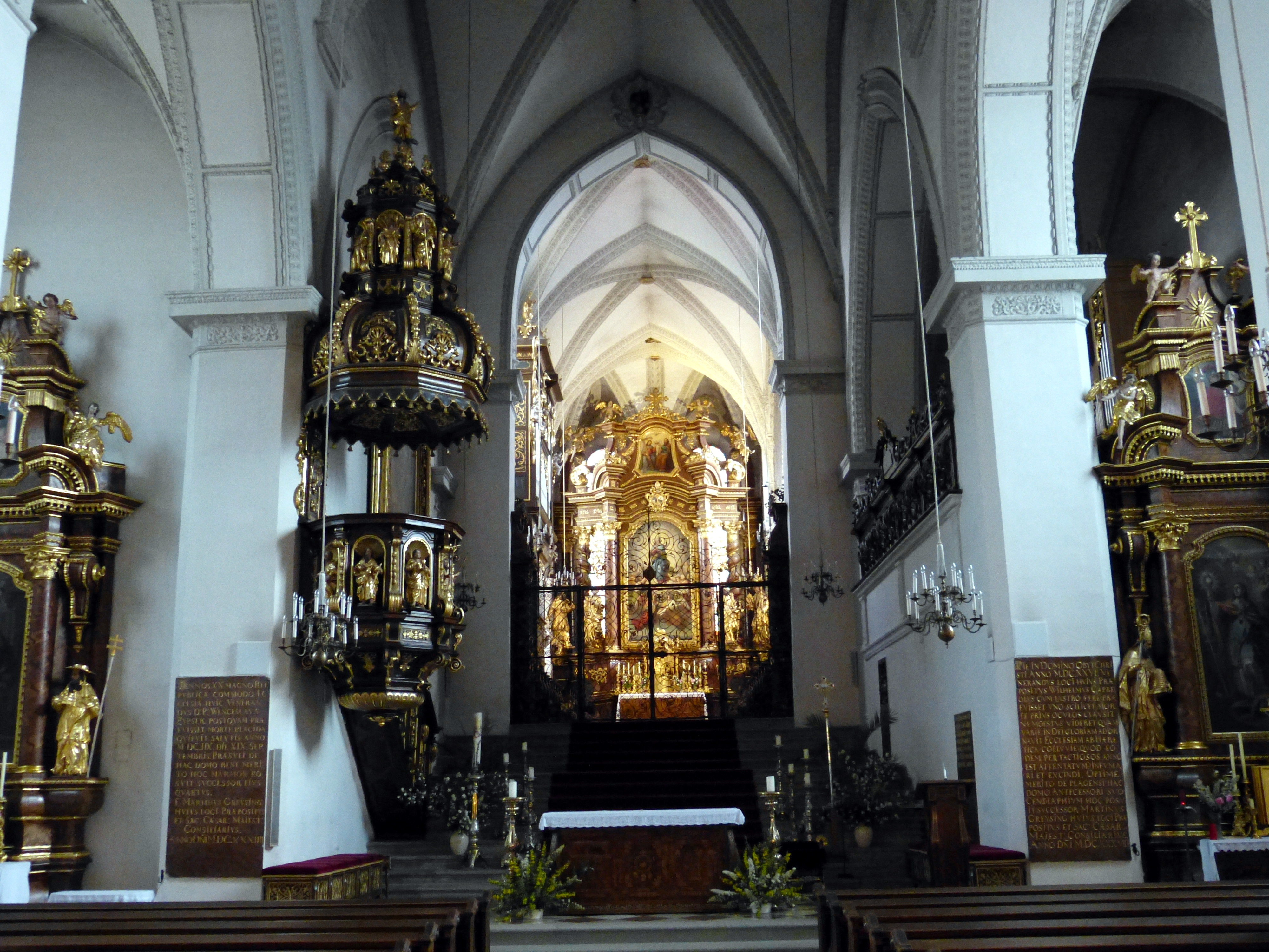 Schlägl ( Upper Austria ). Monastery church - Interior.